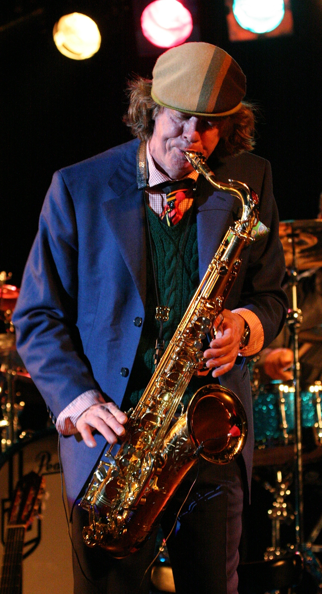 Helge Schneider playing saxophone in his show "Wullewupp Kartoffelsupp".